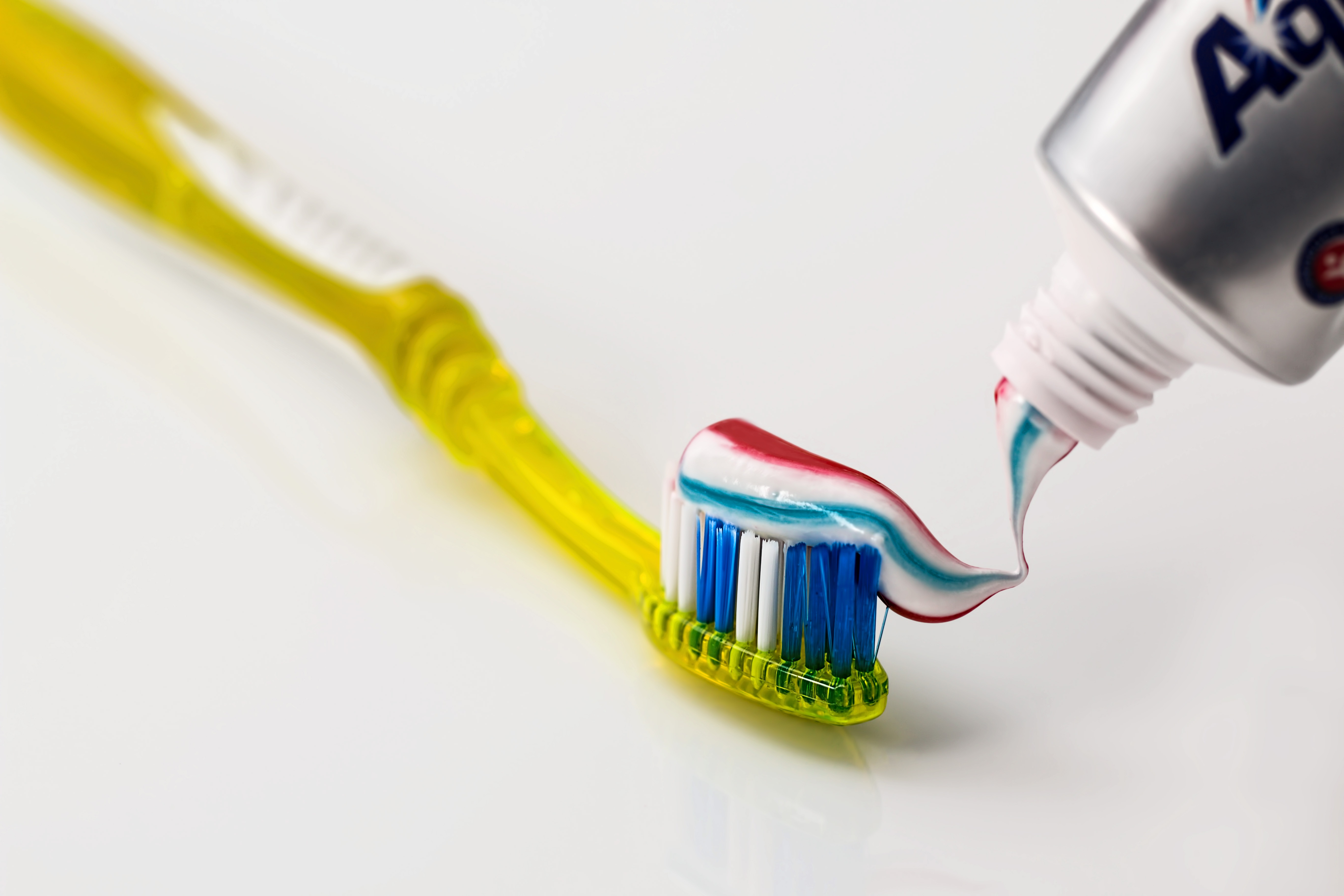 Toothbrush with toothpaste